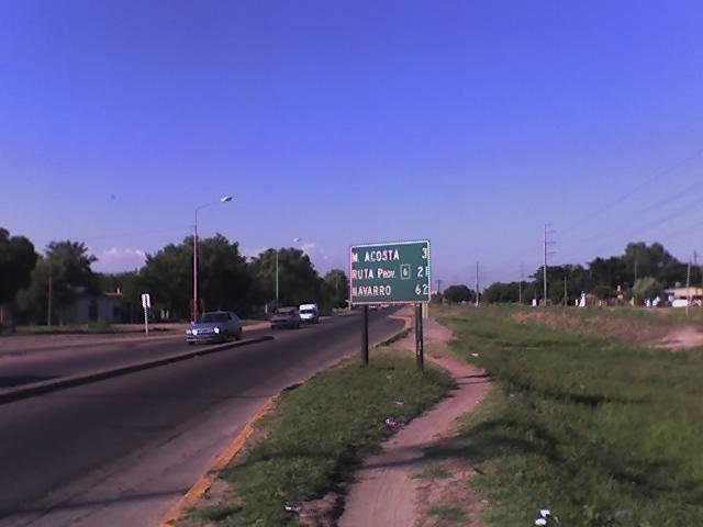 Ruta 200, provincial route that links the cities of Merlo and Navarro, Merlo Partido, Buenos Aires Province, Argentina.